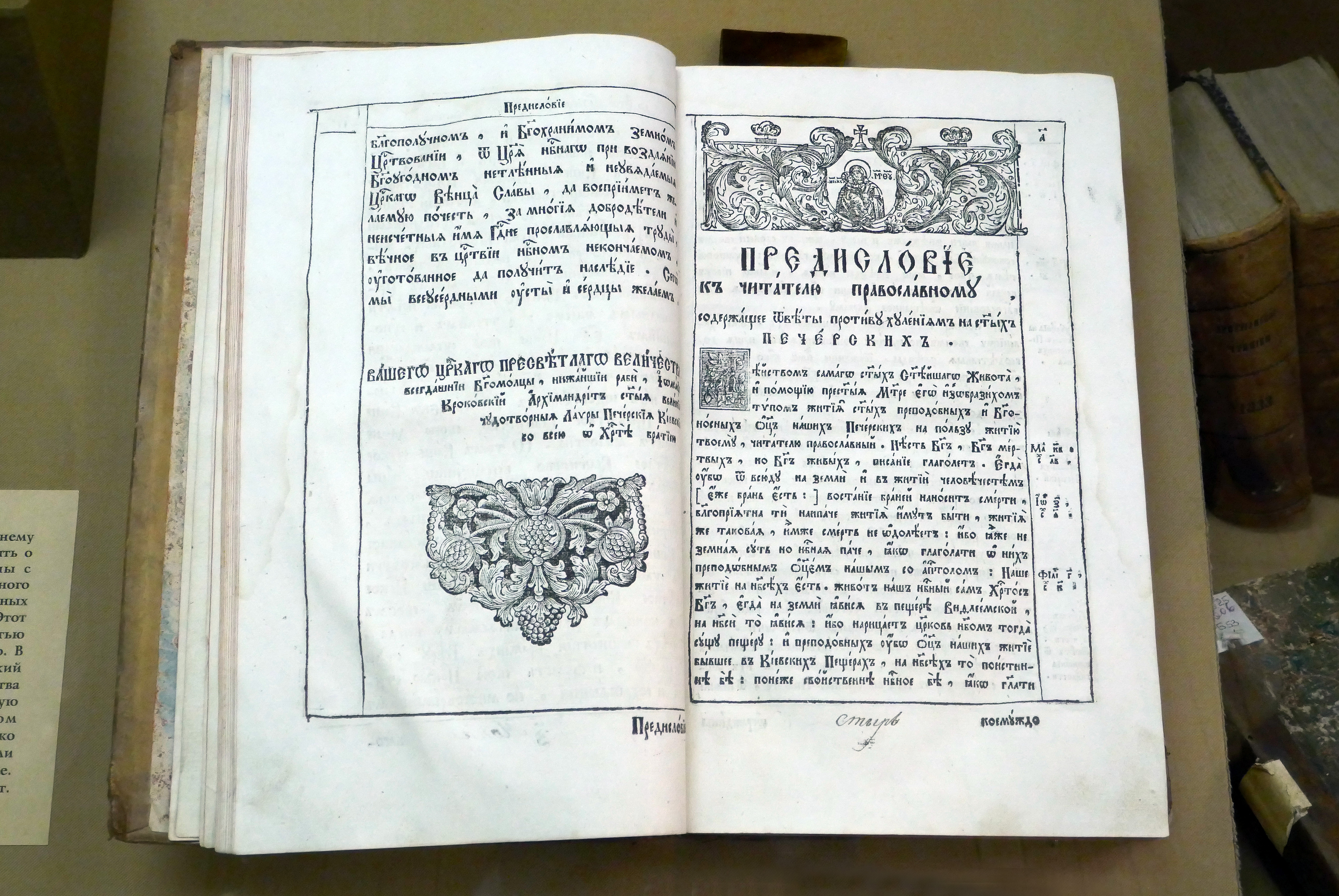 Patericon of 1758, Valday Town Museum (Russia).